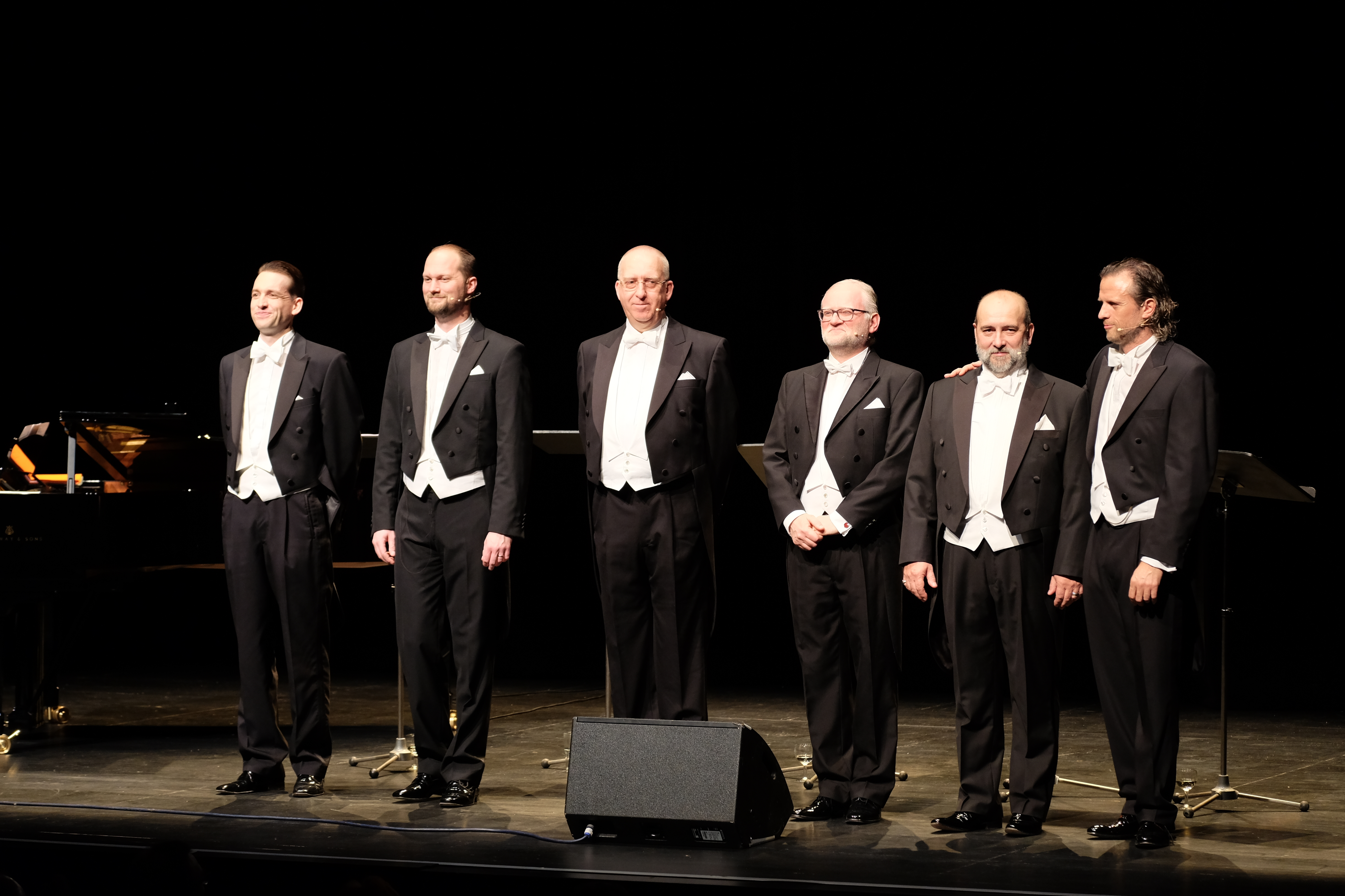 d'Cojellico's Jangen at theatre Esch/Alzette November 2015